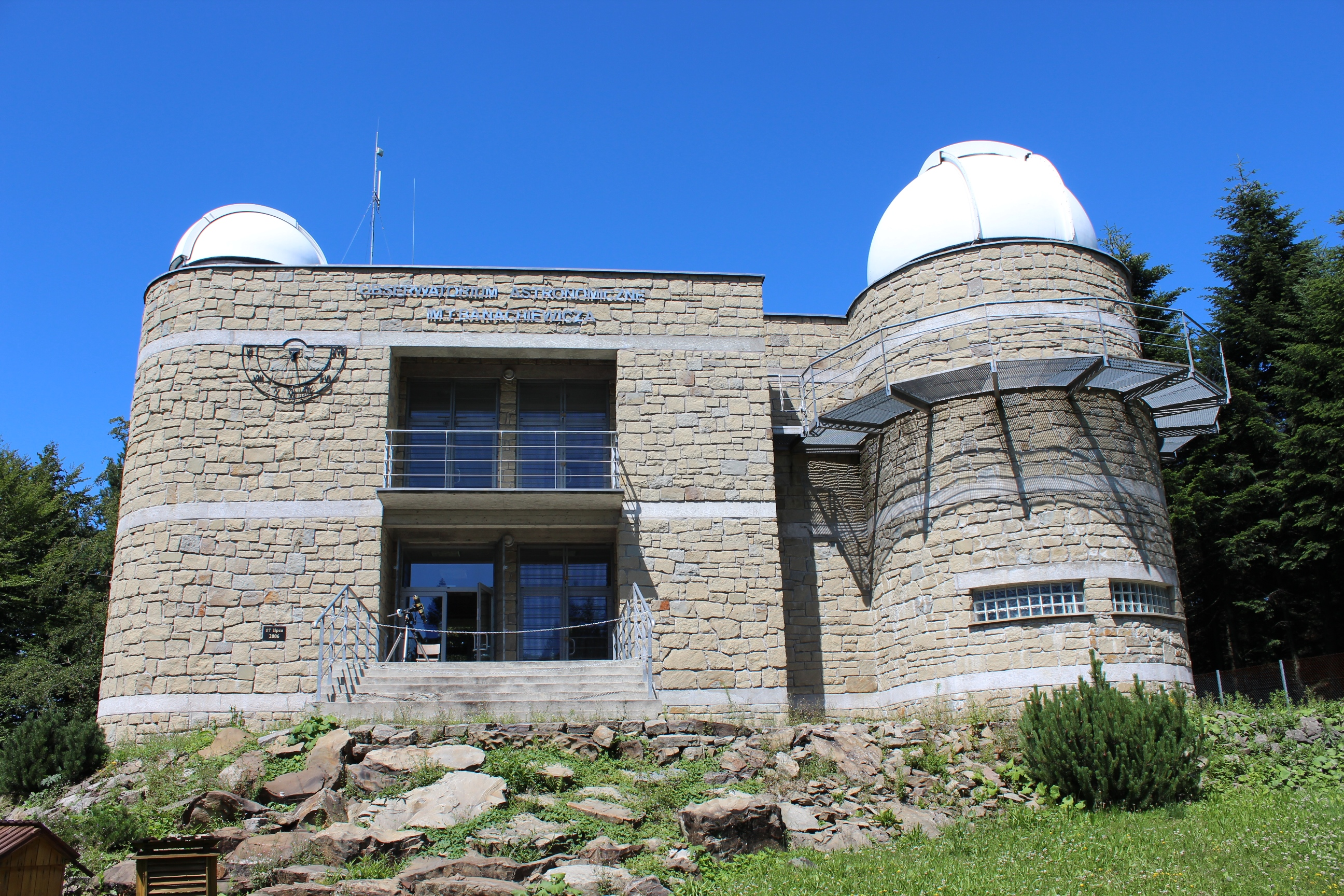 Lubomir Astronomical Observatory